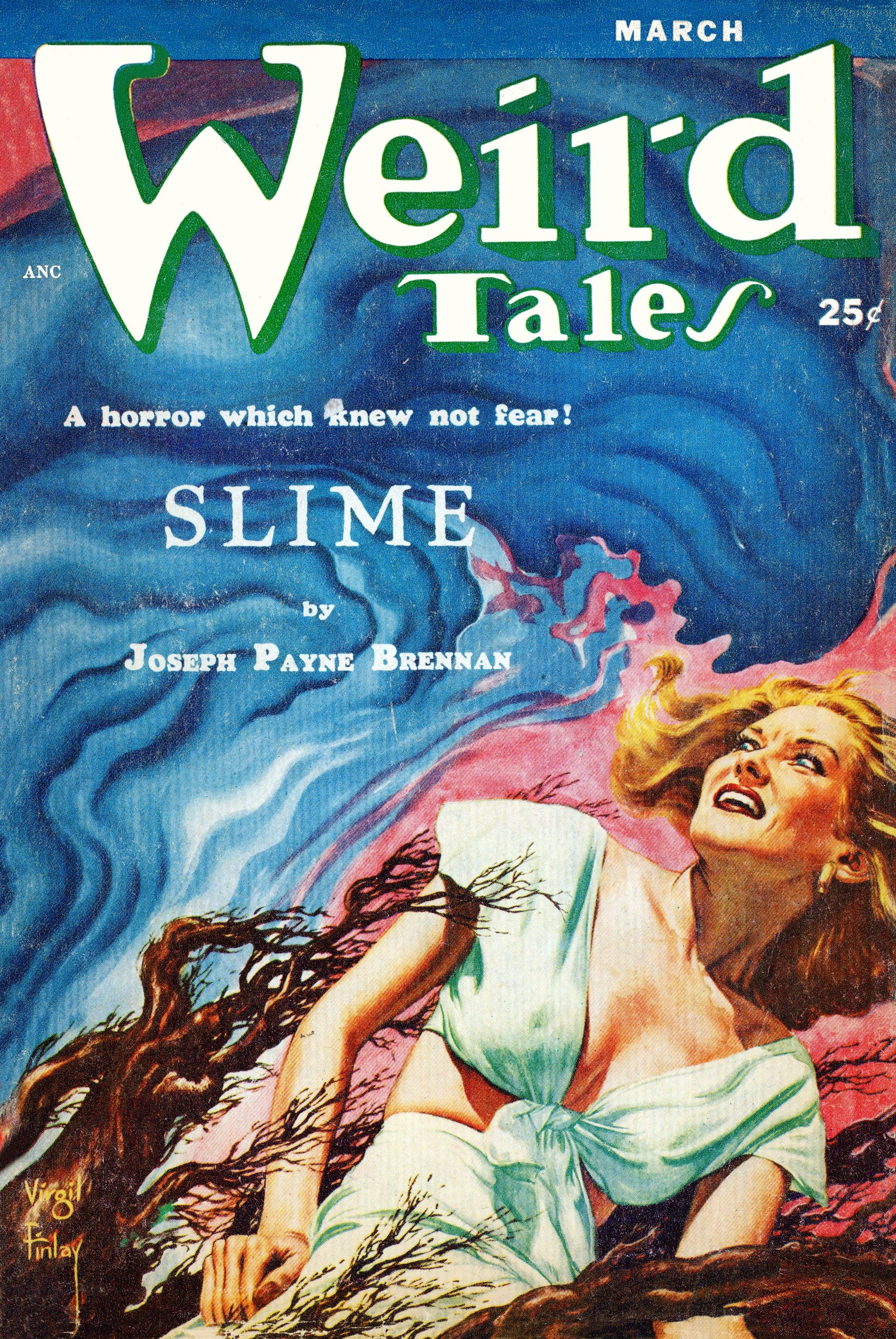 Cover of the pulp magazine Weird Tales (March 1953, volume 45, number 1) featruing "Slime" by Joseph Payne Brennan. Cover art by Virgil Finlay.